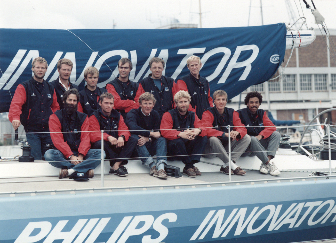 Jeff Nadler as race crew in the 1995–96 Whitbread race around the world